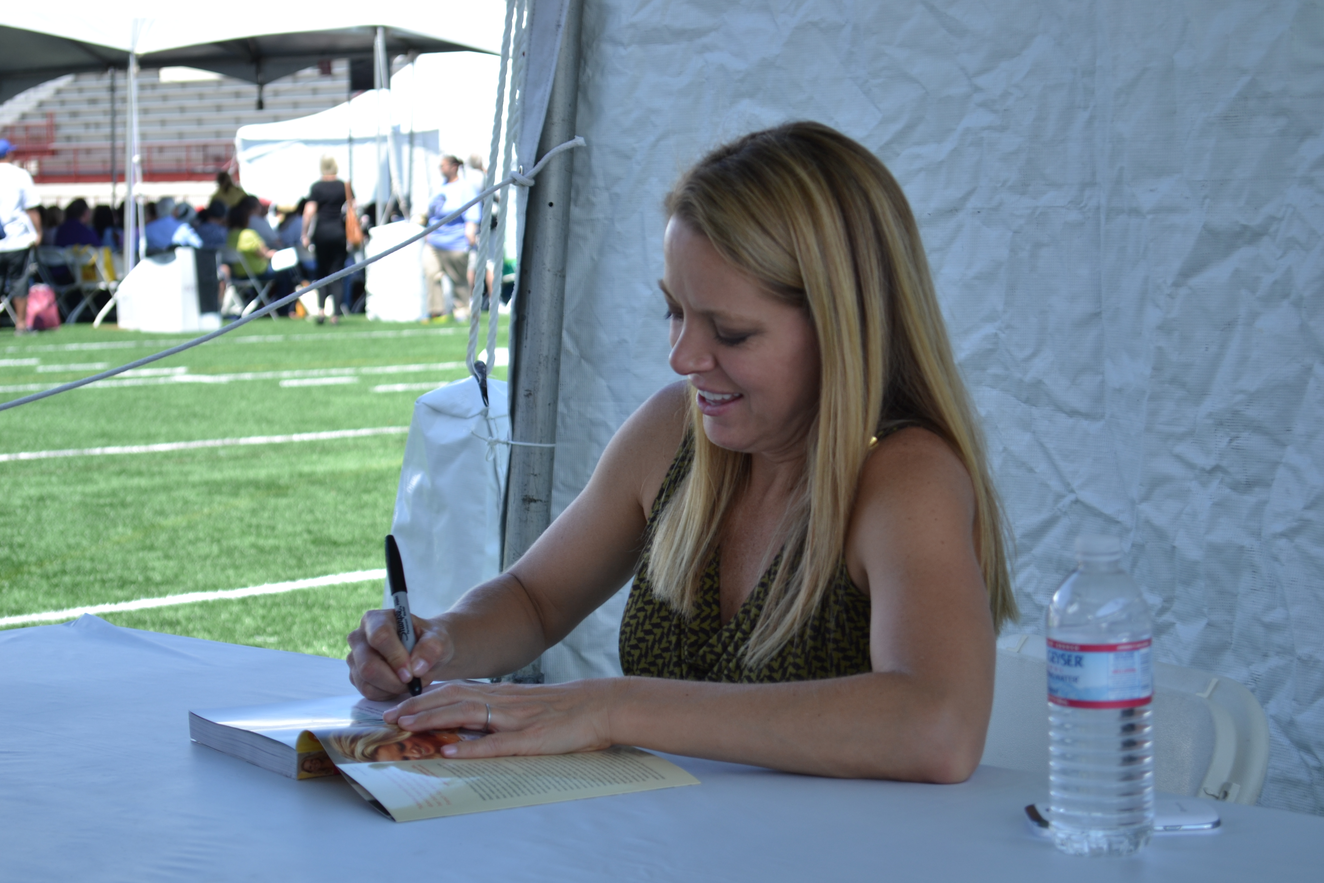 Melissa d'Arabian at 2013 LA Times Festival of Books (Kristin Yinger/Neon Tommy)